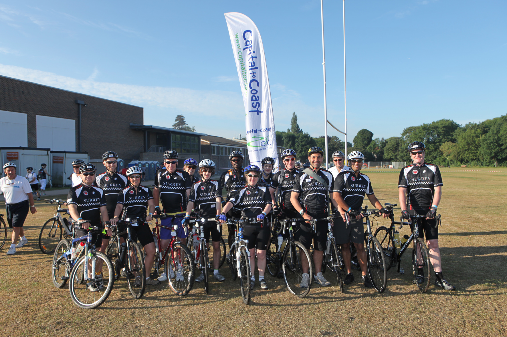 A police team at Capital to Coast Cycle Challenge.